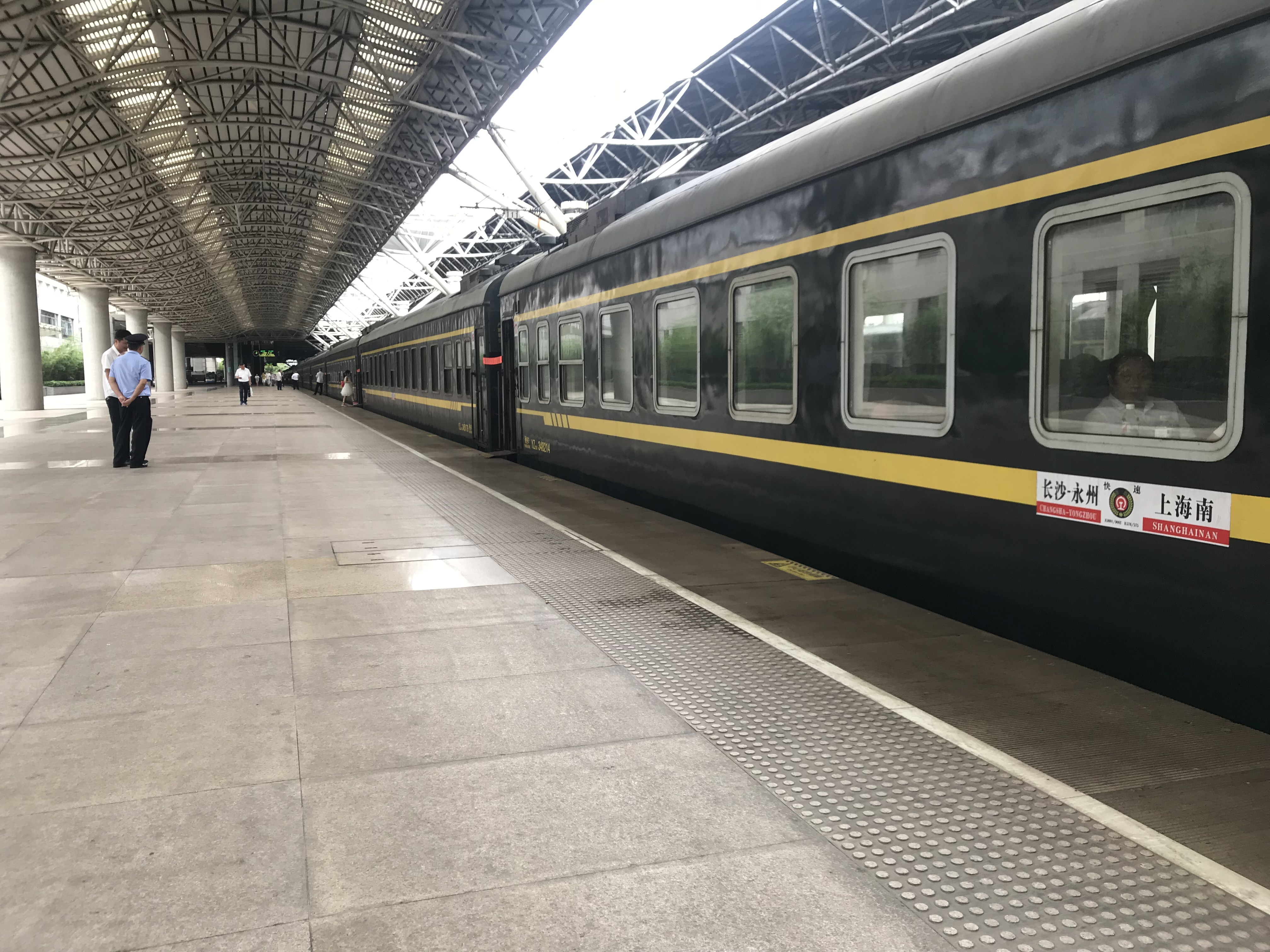 201907 Coaches of K575 at Shanghainan Station